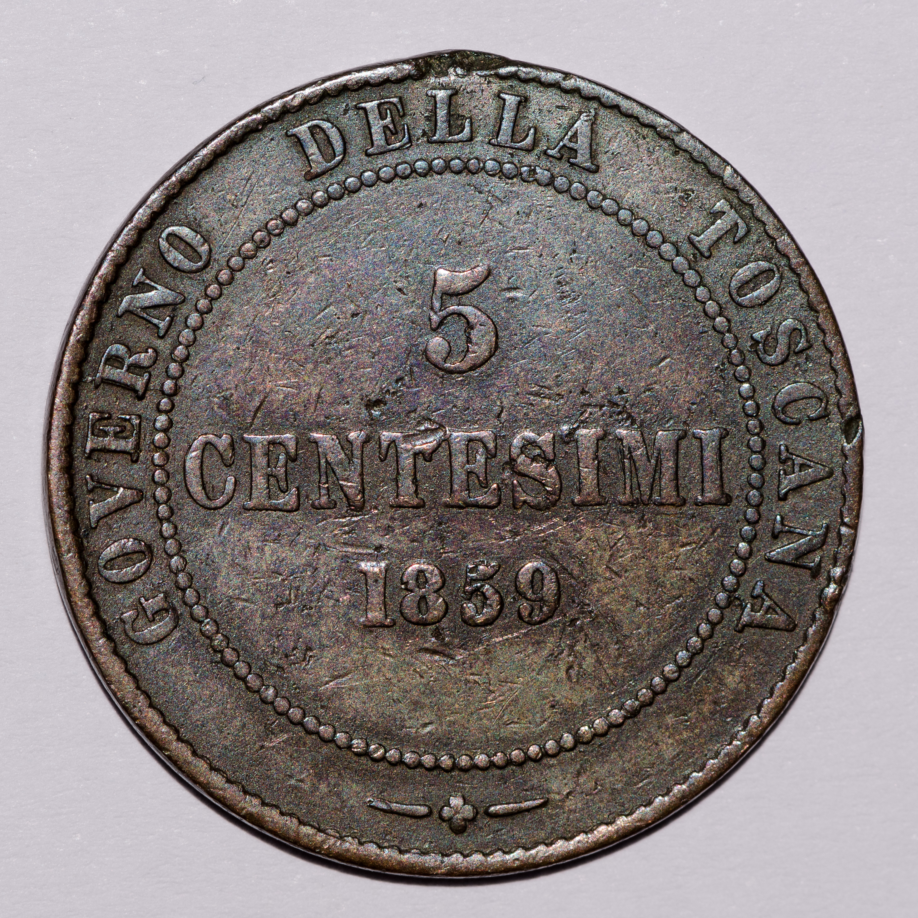 5 Centesimi coin, 1859 from Toscany, front